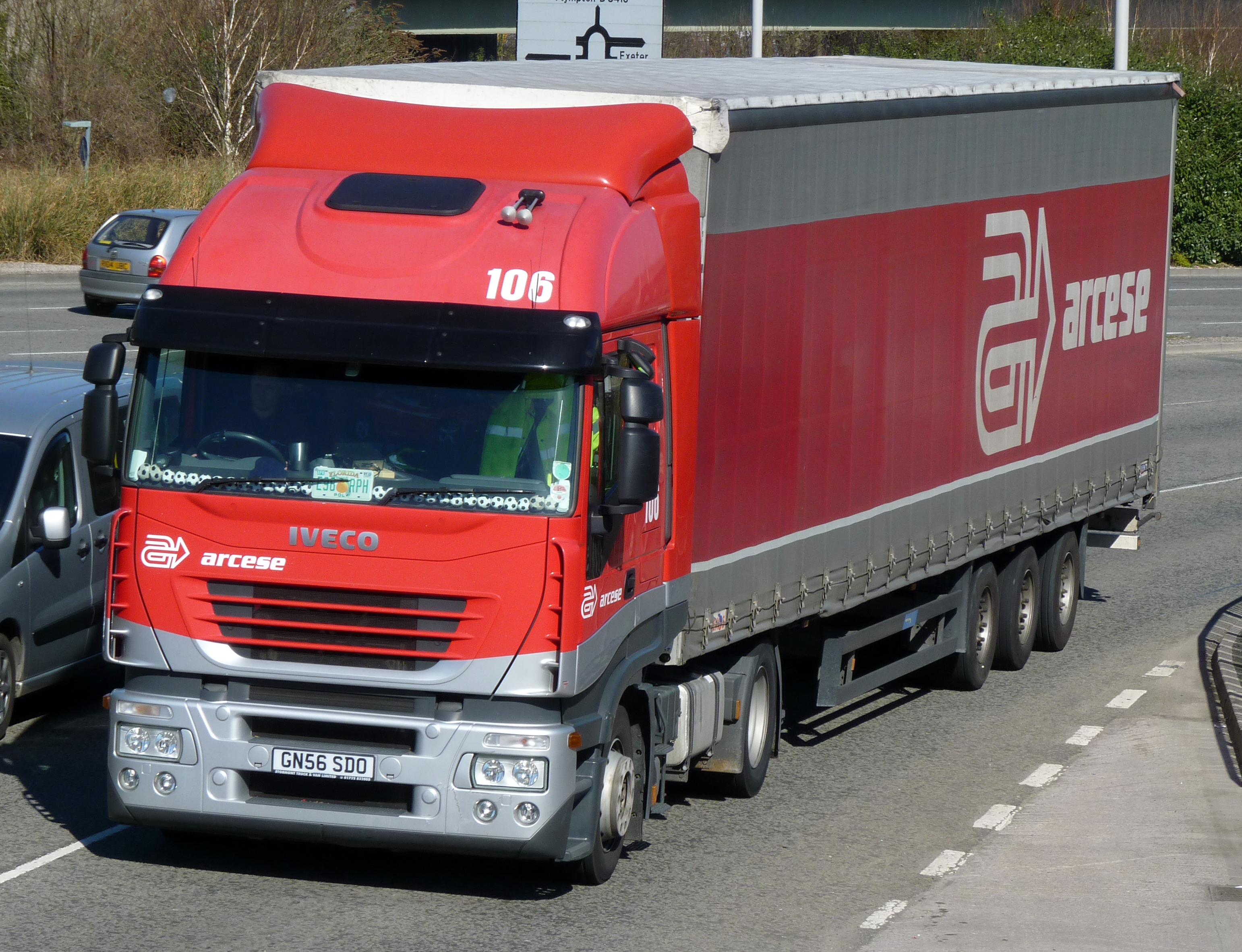 08 March 2010 Marsh Mills Plymouth